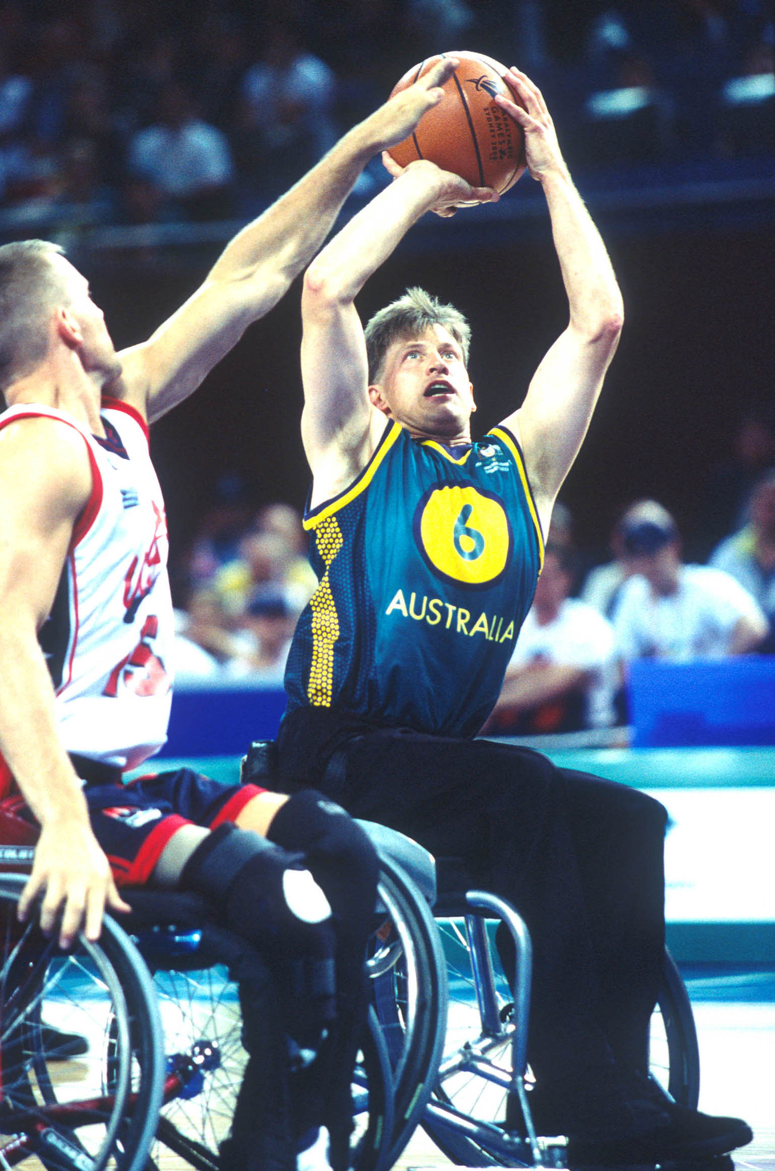 Australian wheelchair basketballer David Gould with the ball during 2000 Sydney Paralympic Games match